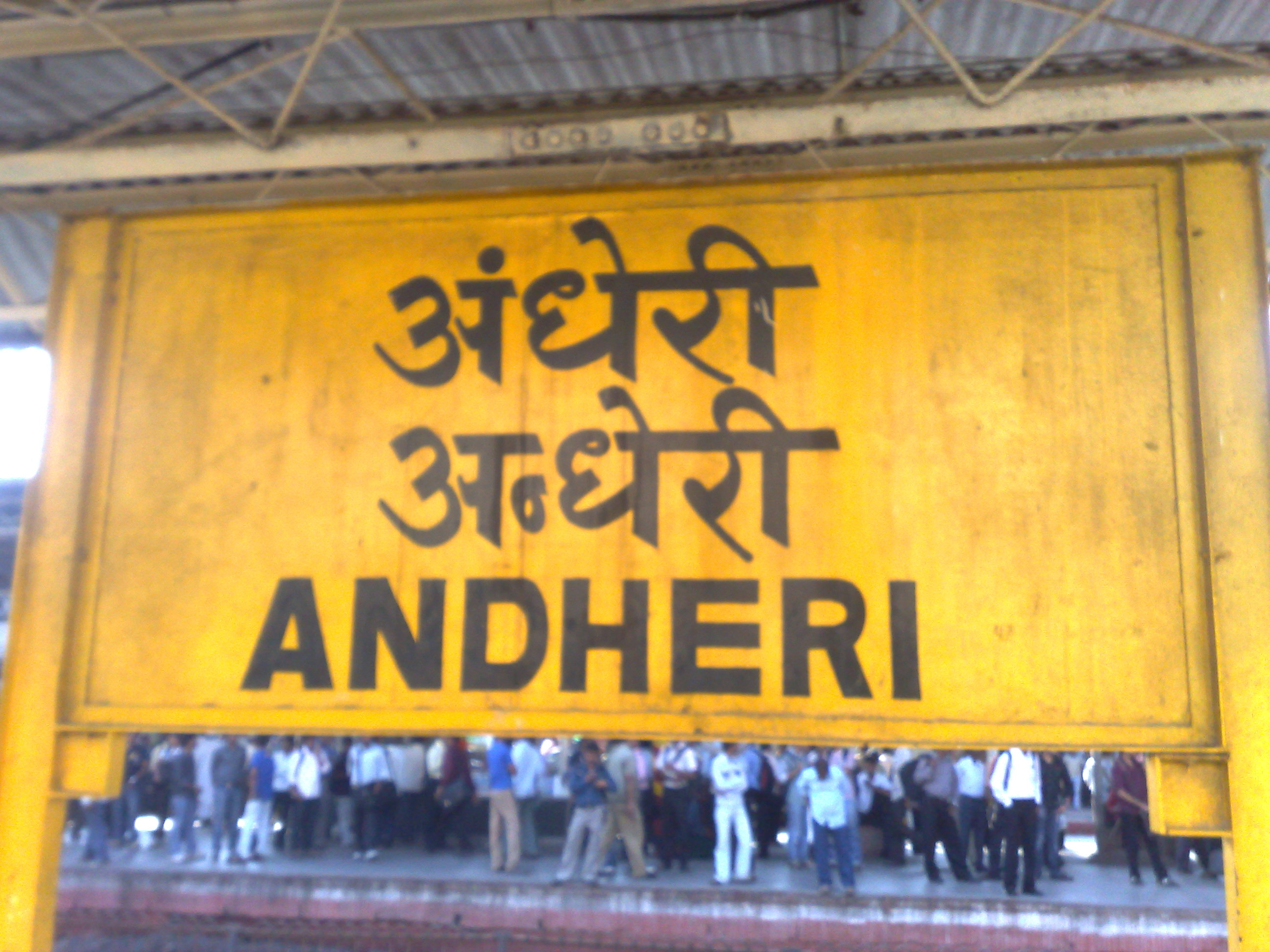 Stationboard - Andheri